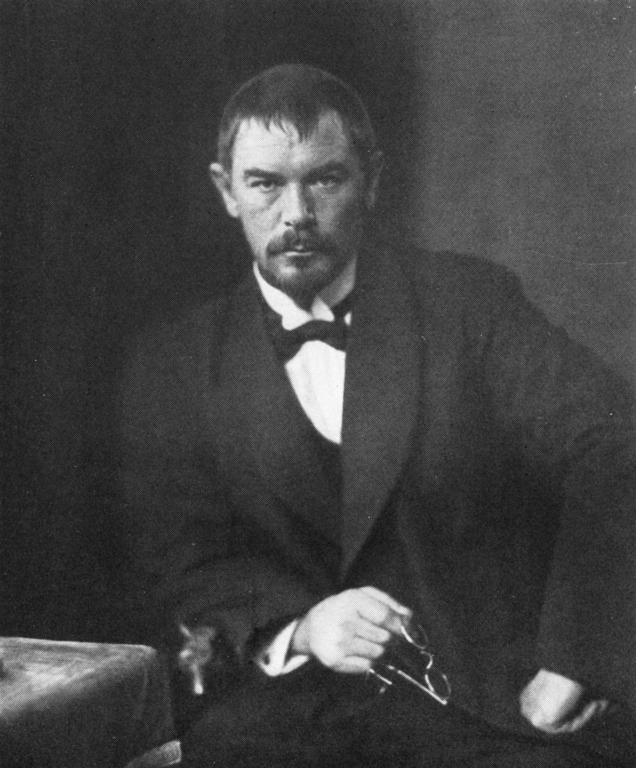 Albert Engström.